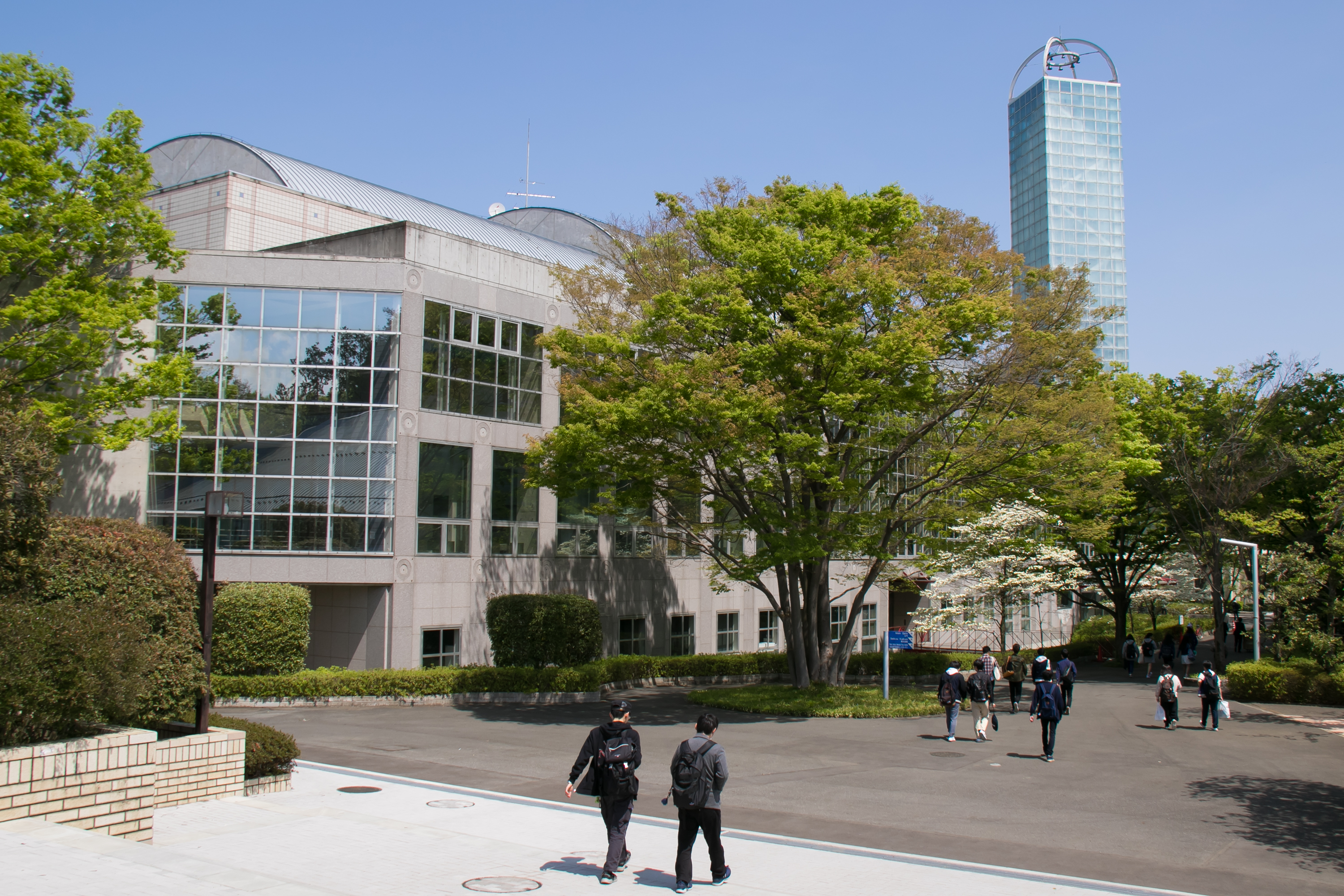 城西大学坂戸キャンパス